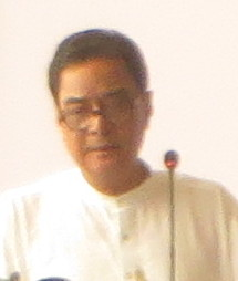 5th Agro Tech Bangladesh, 28-30 May, 2015 at Basundhara International Convention City, Dhaka